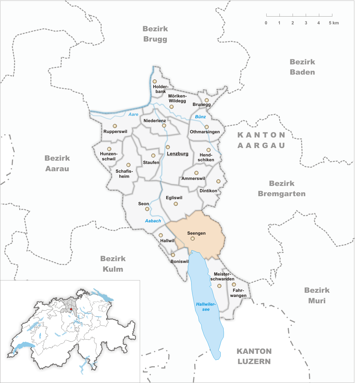 Municipality Seengen